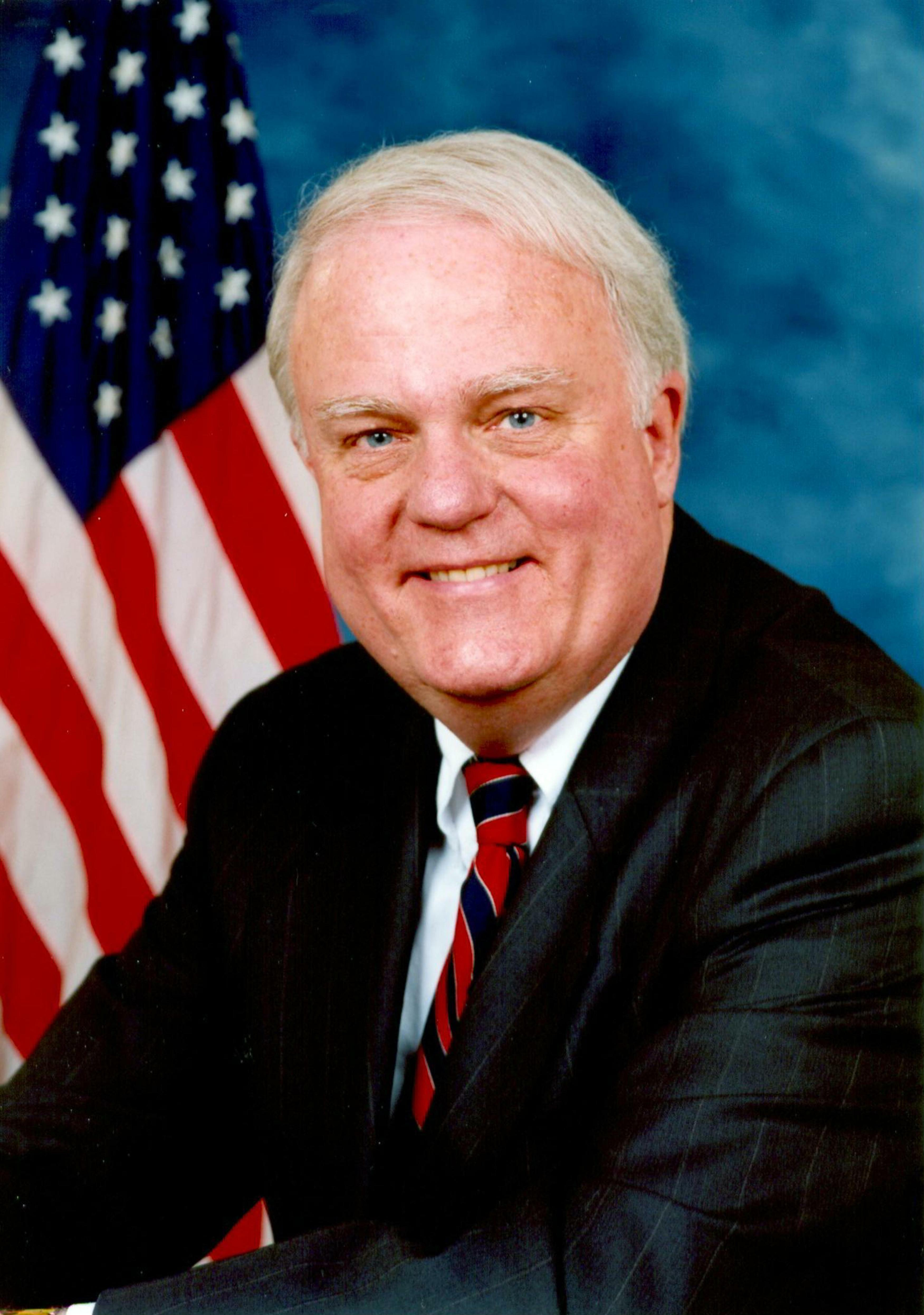 Official government portrait of U.S. Congressman Jim Sensenbrenner.